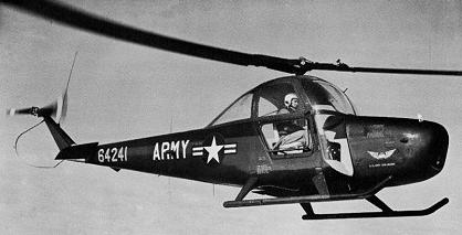 Cessna YH-41A Seneca (CH-1) helicopter.